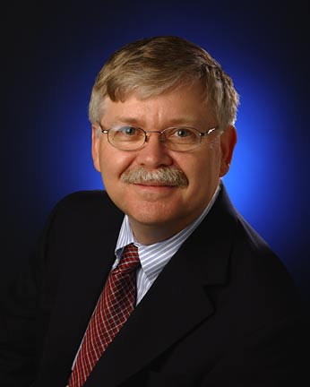 Photo of NASA Chief Historian Steven J. Dick used in NASA publications